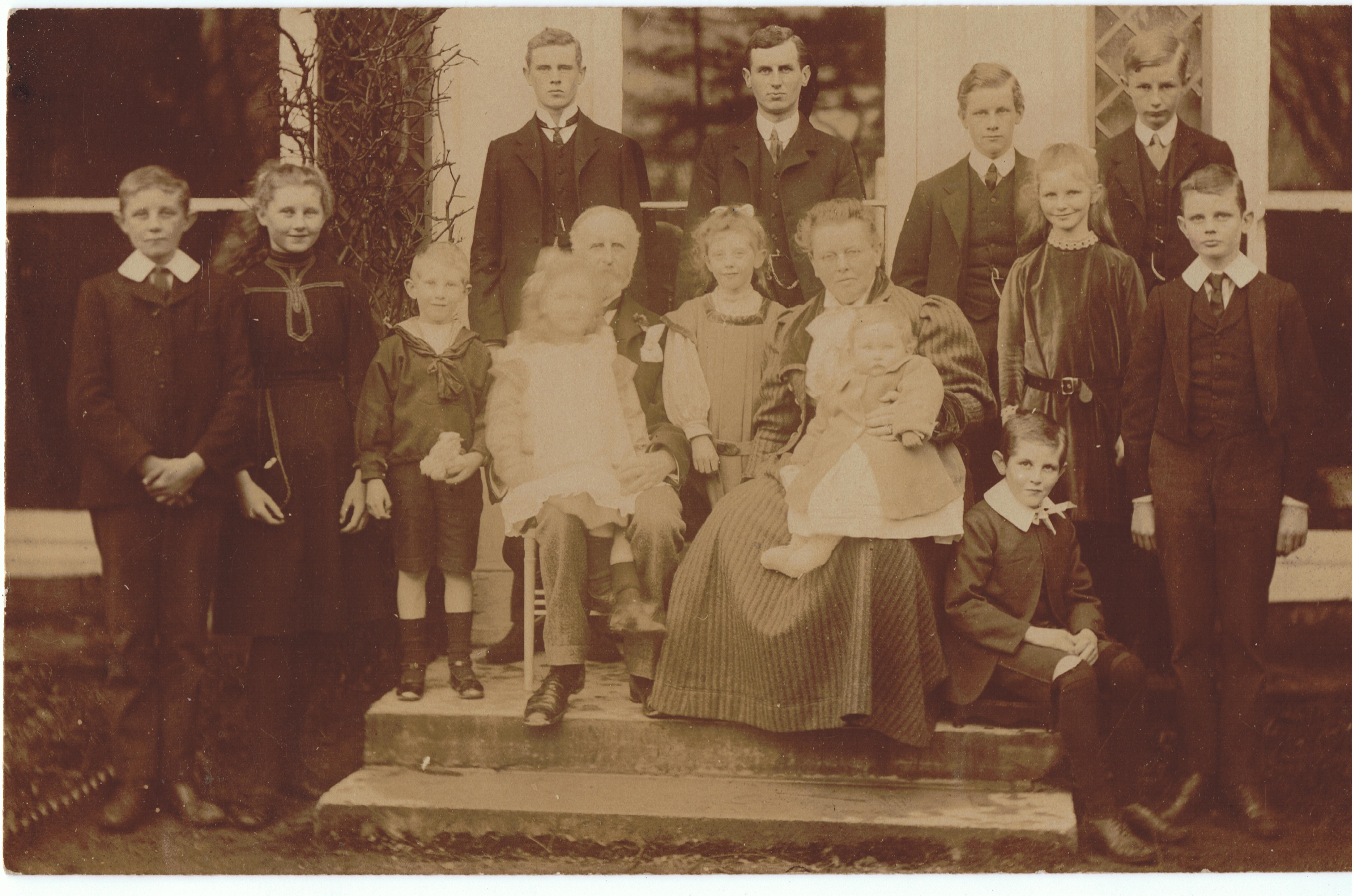 Scan (by me, R. de Salis, Rodolph (talk) 20:08, 11 August 2015 (UTC)) of a postcard of Cecil Fane de Salis, of Dawley Court, Hillingdon, Middlesex, and his wife and 13 children, 1912.